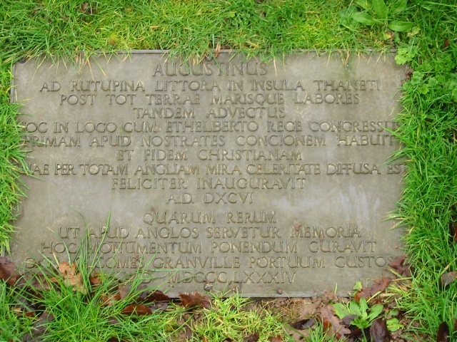 Latin plaque beneath St Augustine's Cross at Cliffsend, Kent